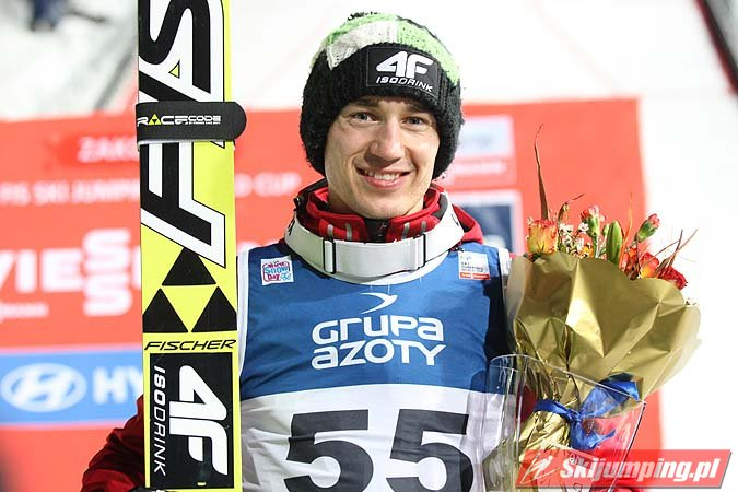 Kamil Stoch during individual competition of FIS Ski Jumping World Cup in Zakopane, 2013